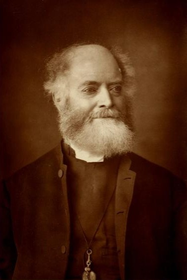 Portrait of Charles Augustus Hulbert (1804–1888), English cleric.